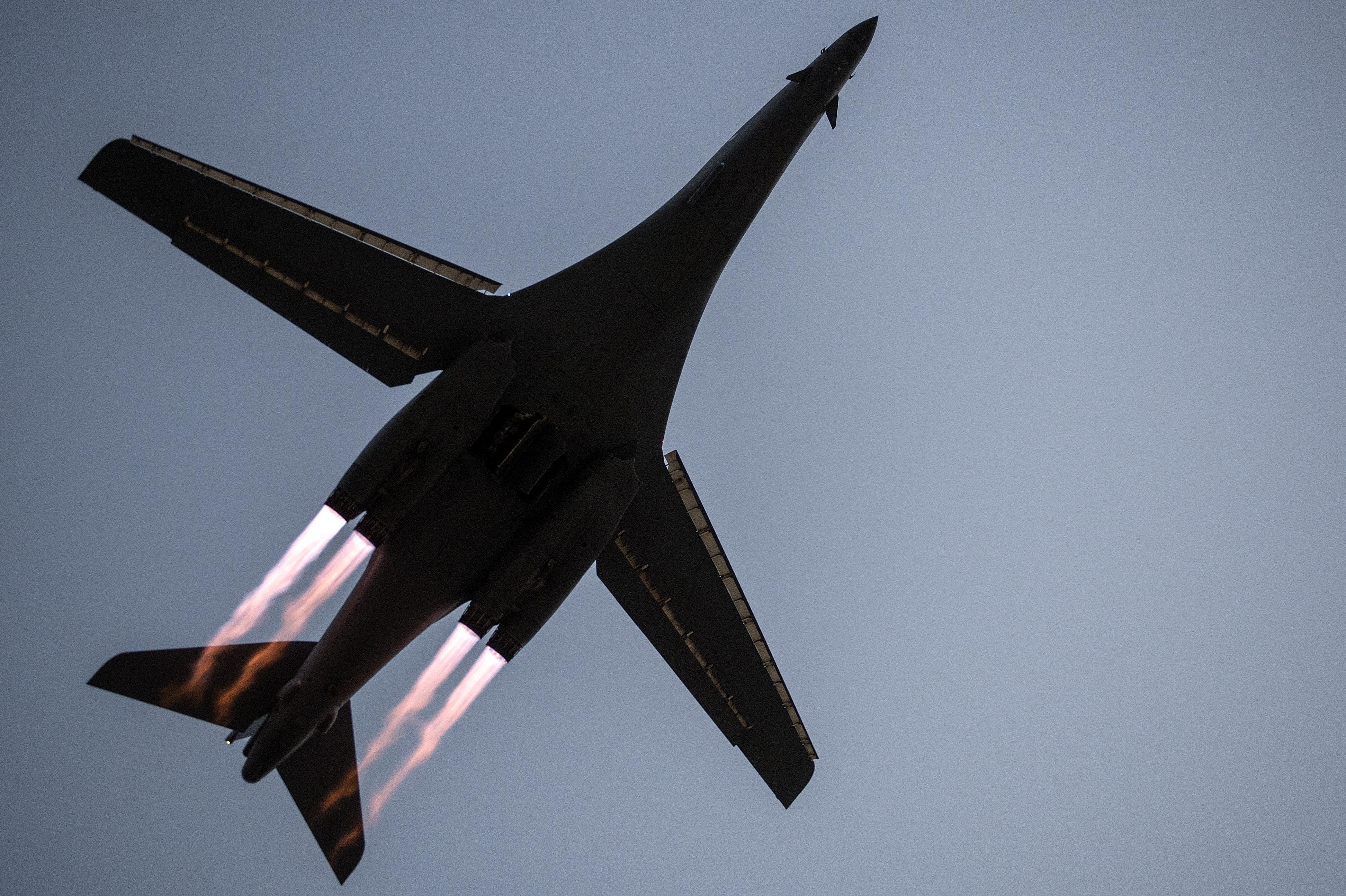 A B-1B Lancer takes off from Al Udeid Air Base, Qatar, to conduct combat operations April 8, 2015. Al Udeid is a strategic coalition air base in Qatar that supports over 90 combat and support aircraft and houses more than 5,000 military personnel.